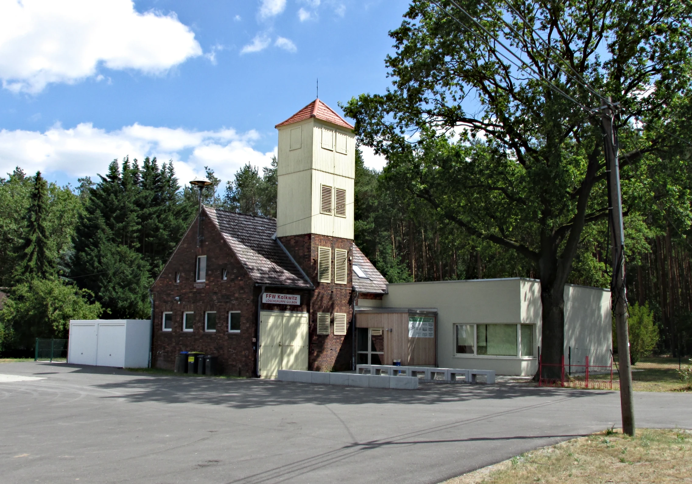 Fire brigade Gulben/Zahsow of the voluntary fire department Kolkwitz.